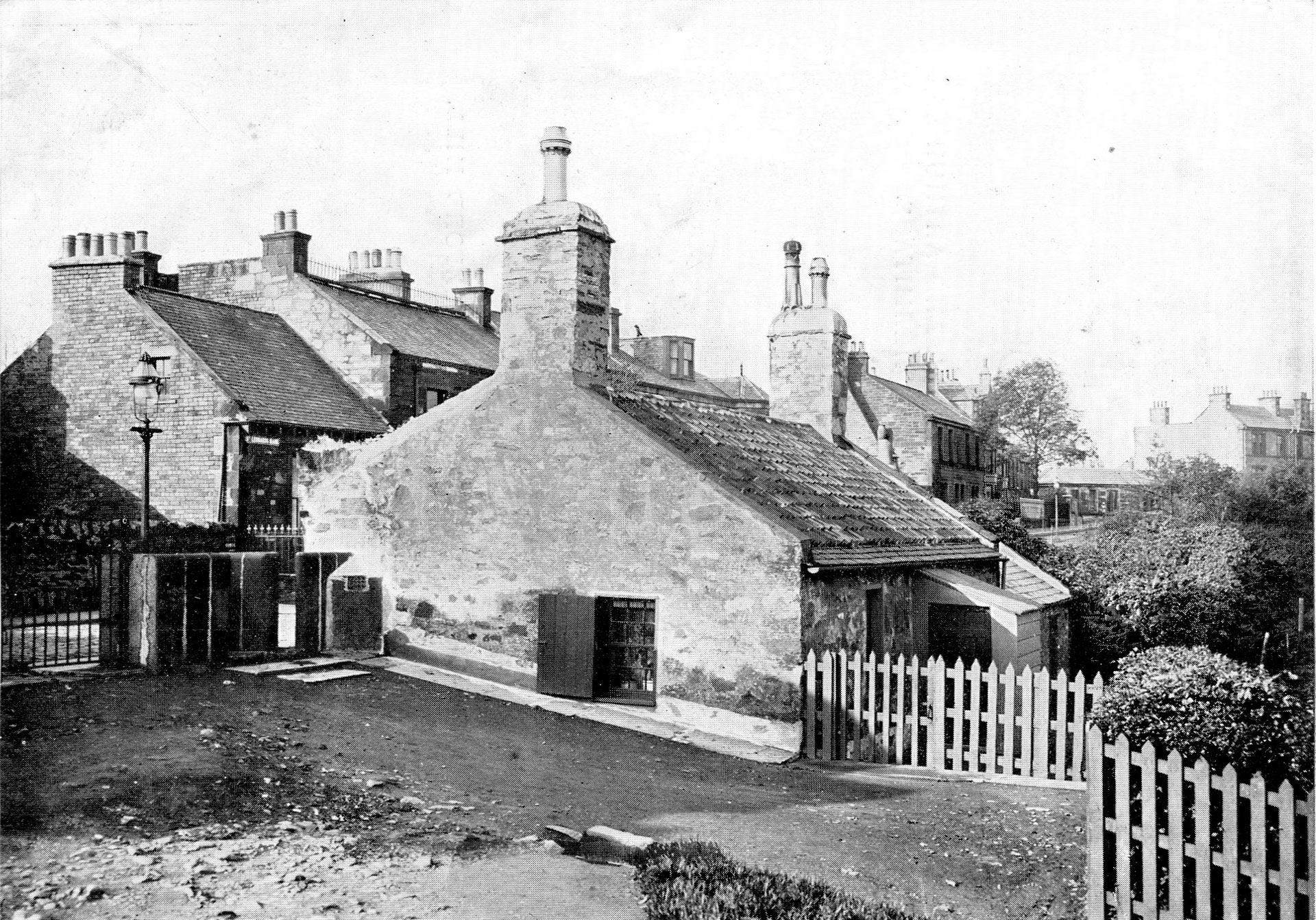 This photograph is taken from a publically available site and is nineteenth century in original and is long out of copyright. It is to be used in a Wikipedia site concerning the fictional character Jeanie Deans.